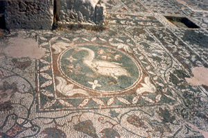 Byzantine mosaic, Soli, photo by User:Jeandunston